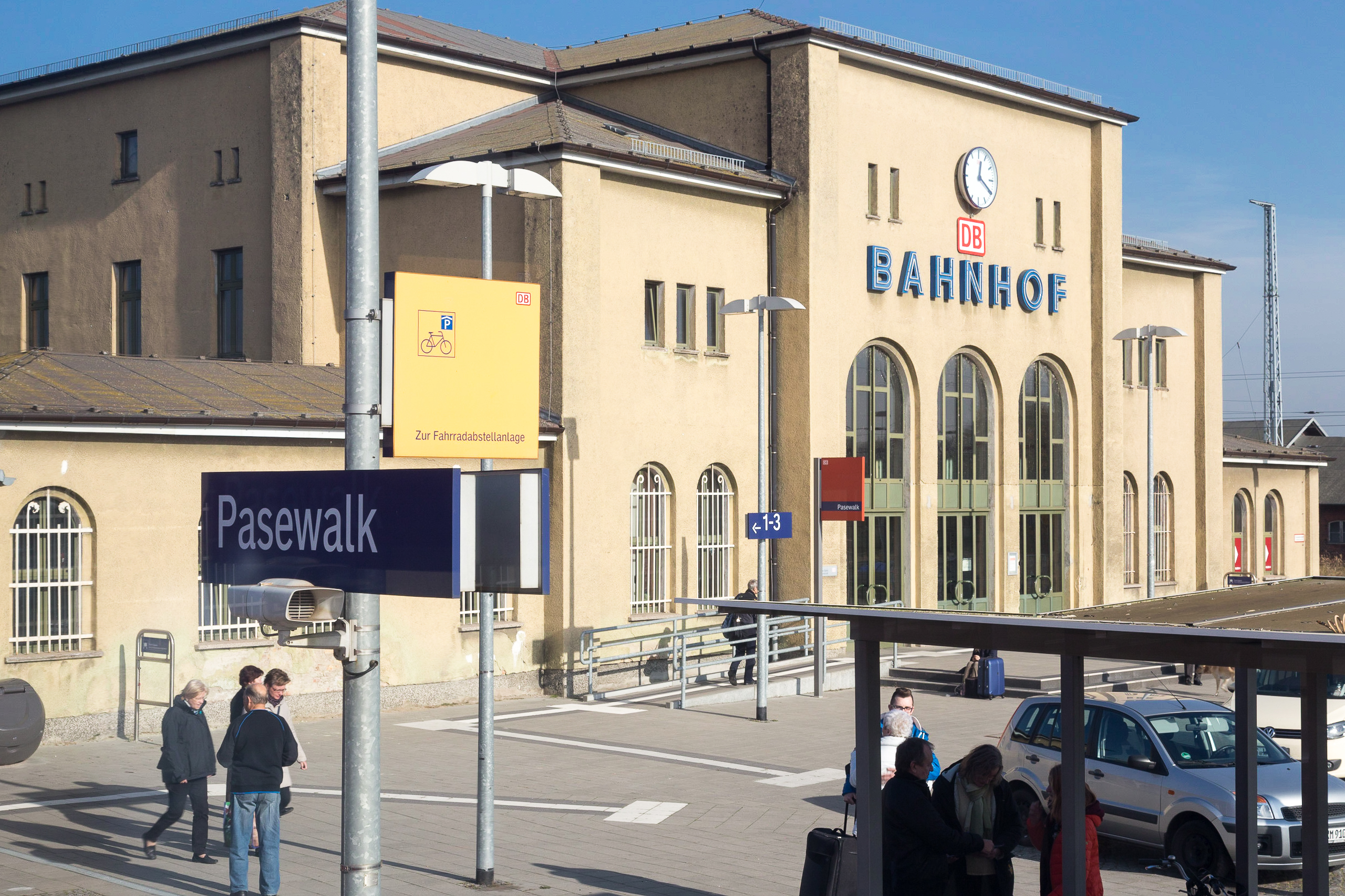 Pasewalk Railway Station